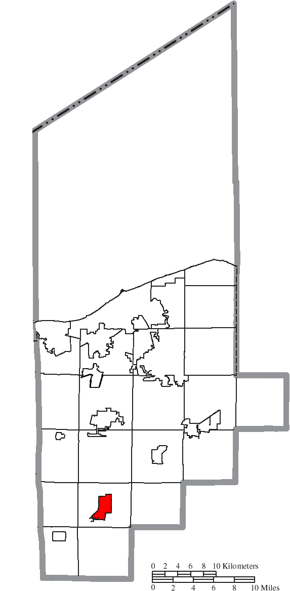 Map of the municipal and township boundaries of Lorain County, Ohio, United States, as of the 2000 census, with the location of the village of Wellington highlighted. Township borders are shown only in unincorporated areas in order to differentiate incorporated and unincorporated areas more clearly.